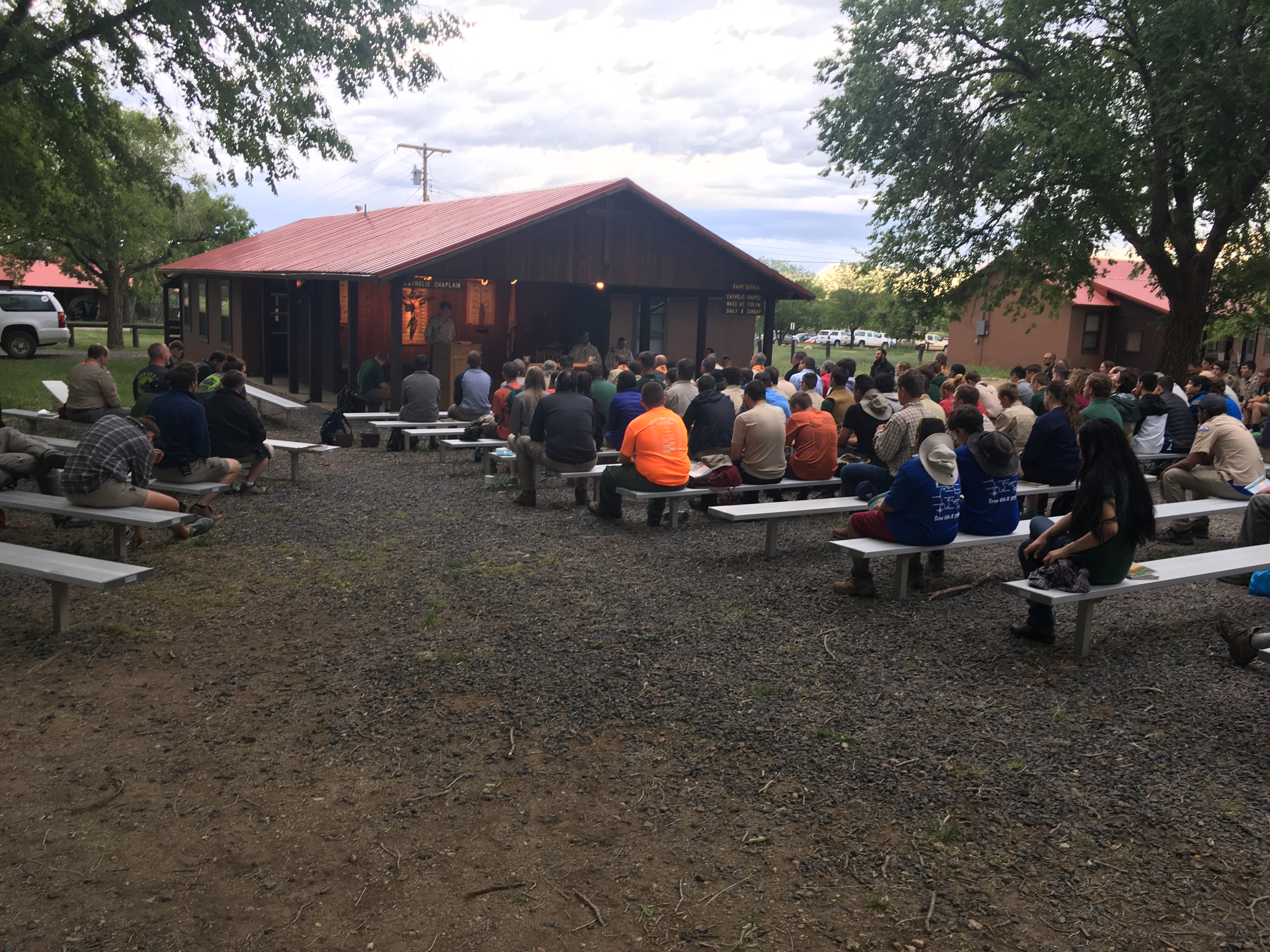 Saint George's Catholic chapel at Philmont Scout Ranch